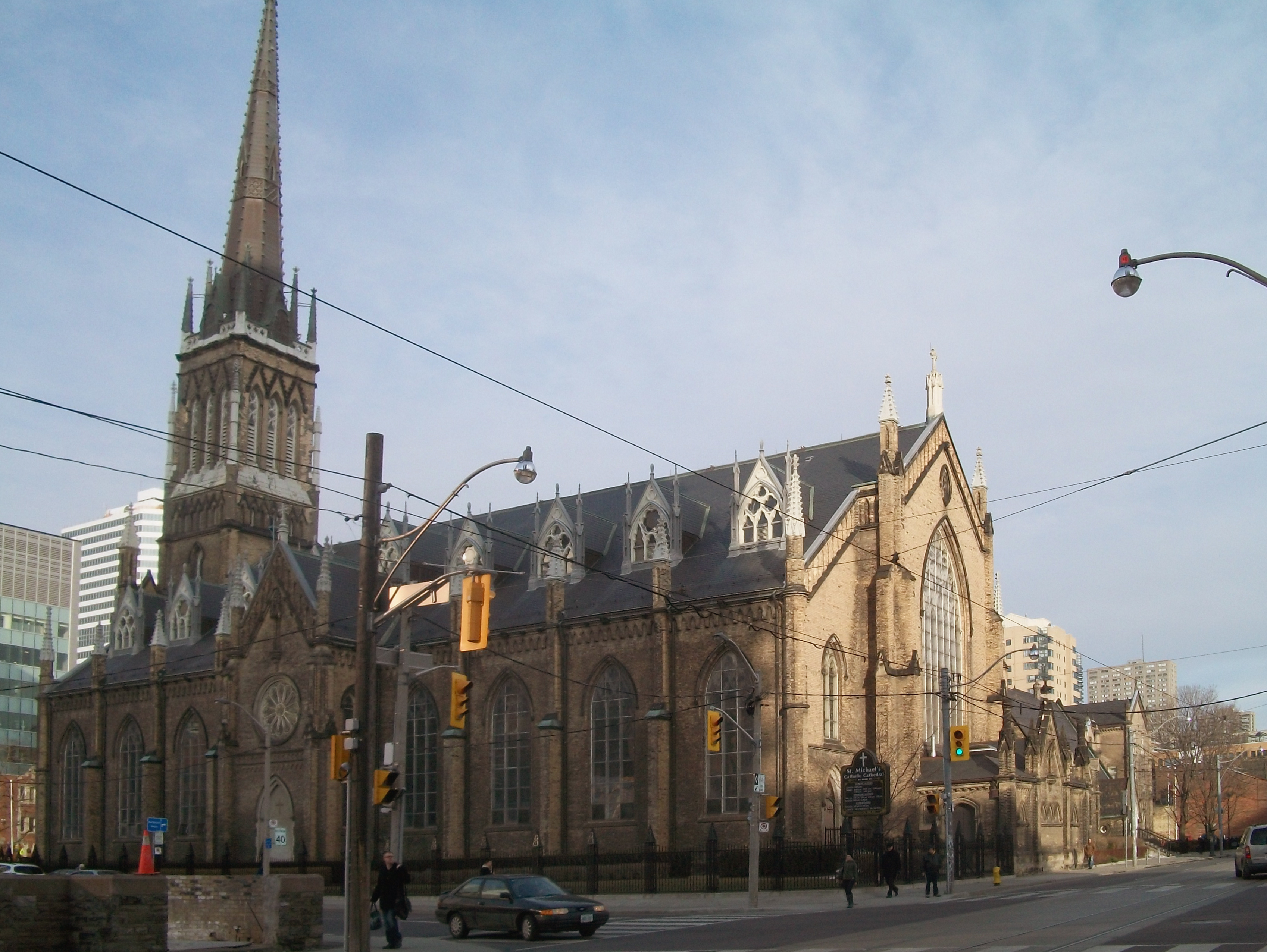 st. michael's cathedral